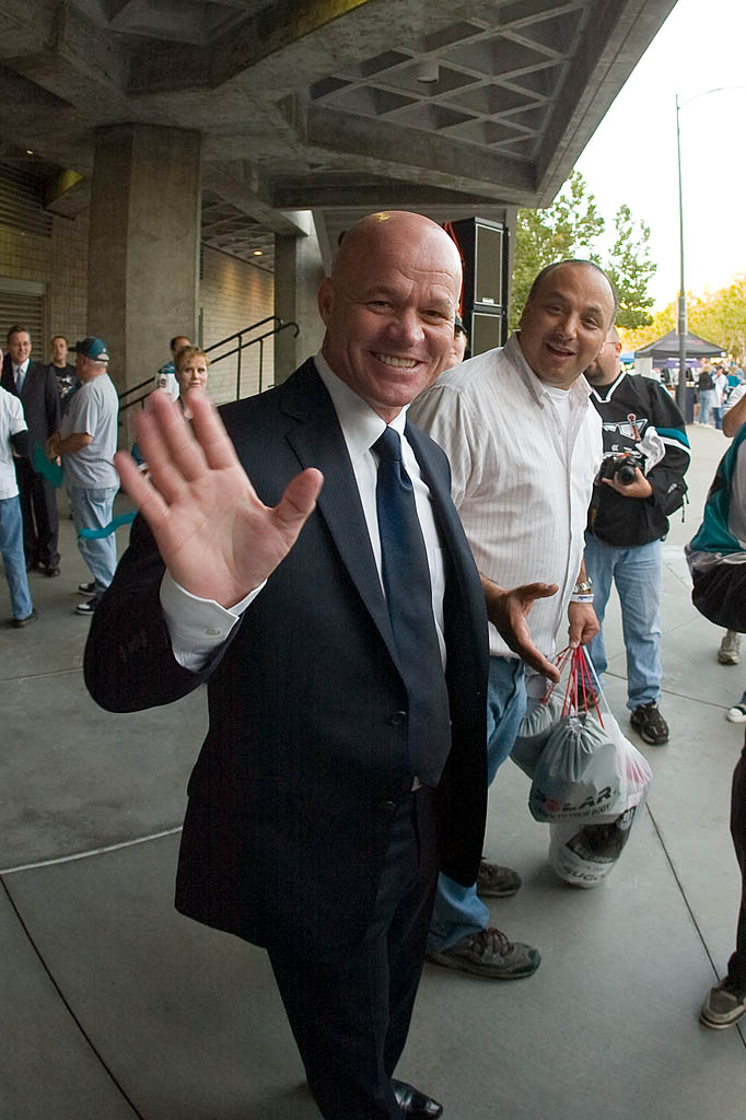 Boston Bruins vs. San Jose Sharks 10/13/2007 (Drew Remenda)